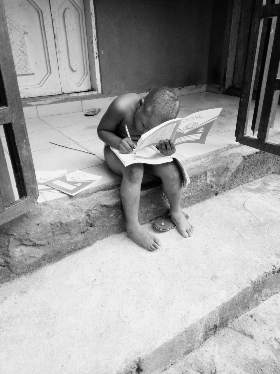 This is a girl child who is forced to do her home work on her own without Adult Supervision as her parents have to go and work to pay her school fees This is an image of "African people at work" from Nigeria